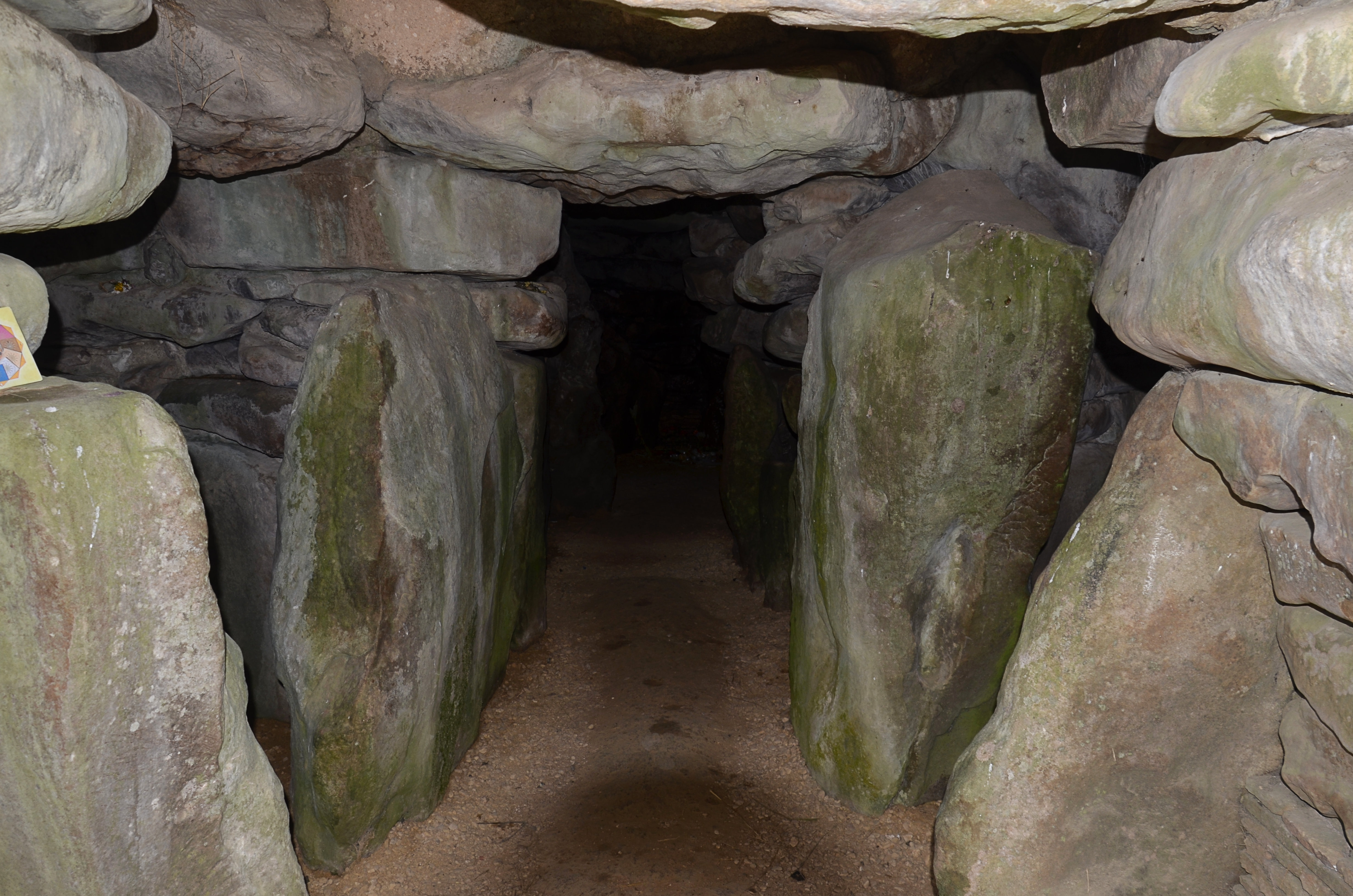 West Kennet long barrow, 800m south-east of Silbury Hill Wikidata has entry Q17648040 with data related to this item.